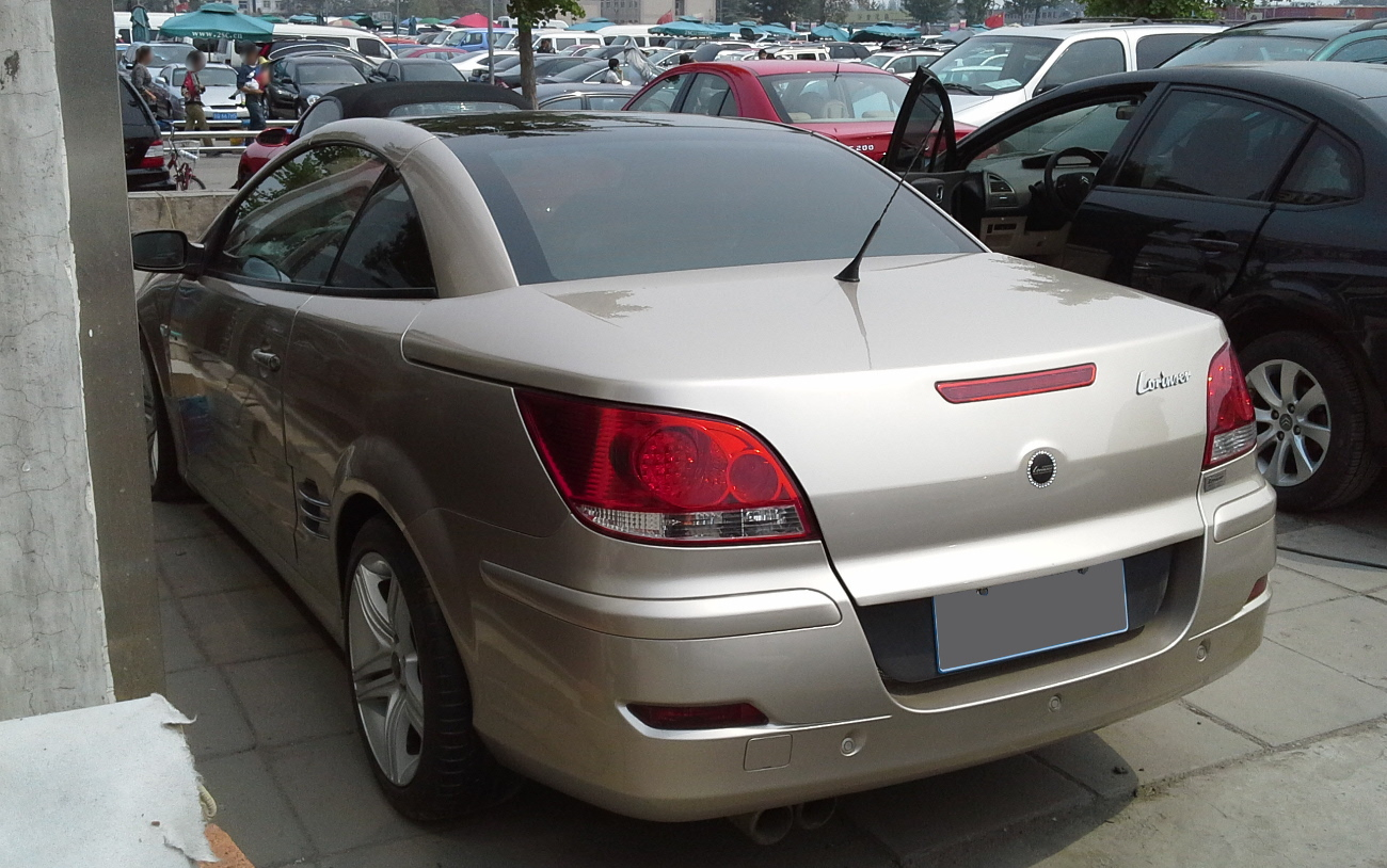 BYD S8 photographed in Beijing, China.